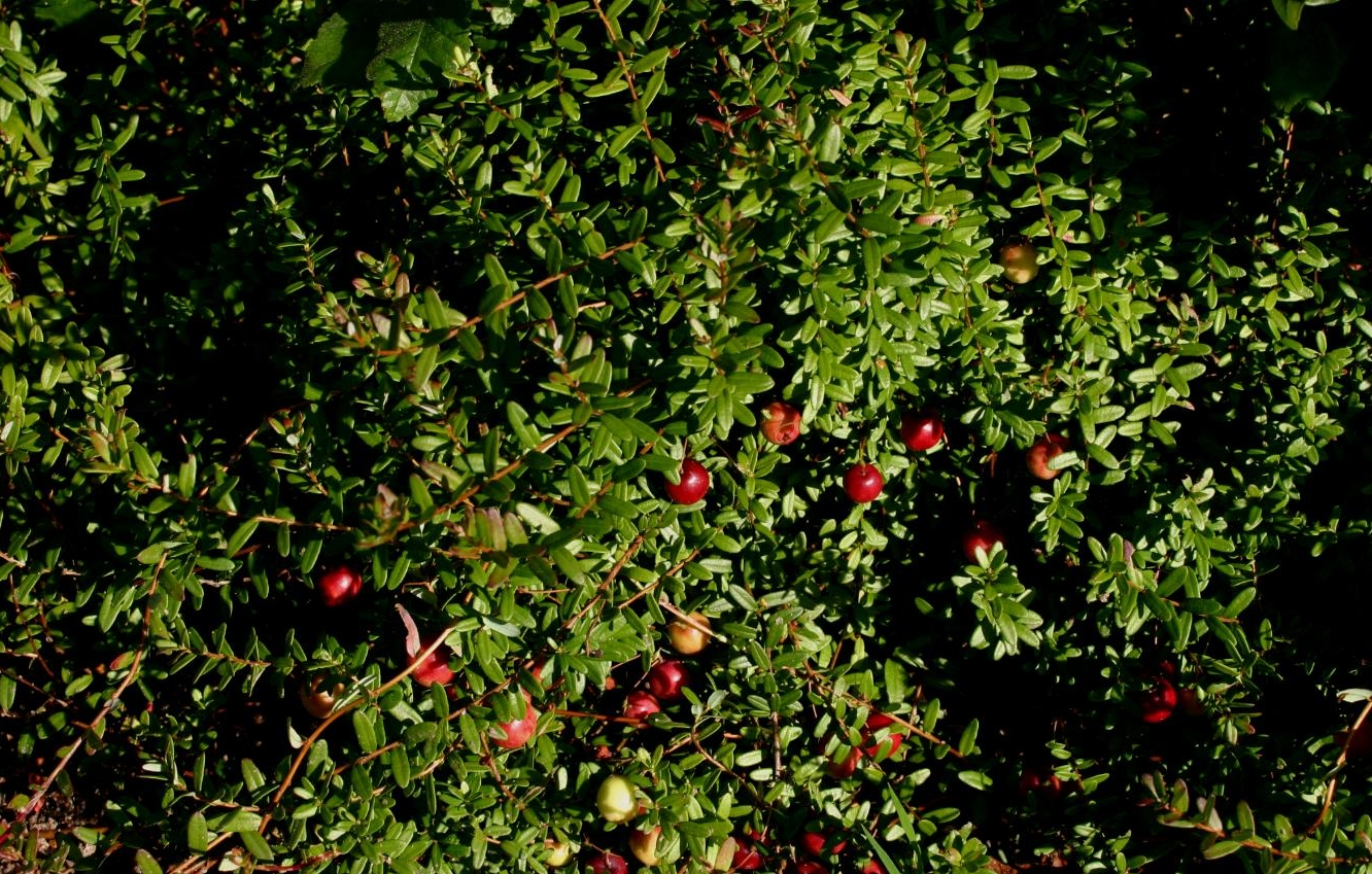 Vaccinium macrocarpon: Foliage and berries